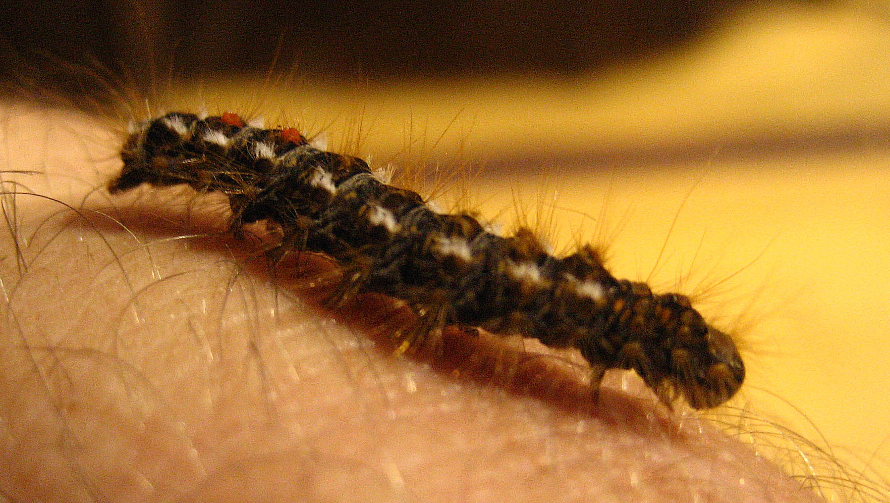 Author; Myself, Bradley Grillo Date; 13, June 2006 This picture is of a brown-tail moth larvae Author; Myself, Bradley Grillo Date; 13, June 2006 This picture is of a brown-tail moth larvae